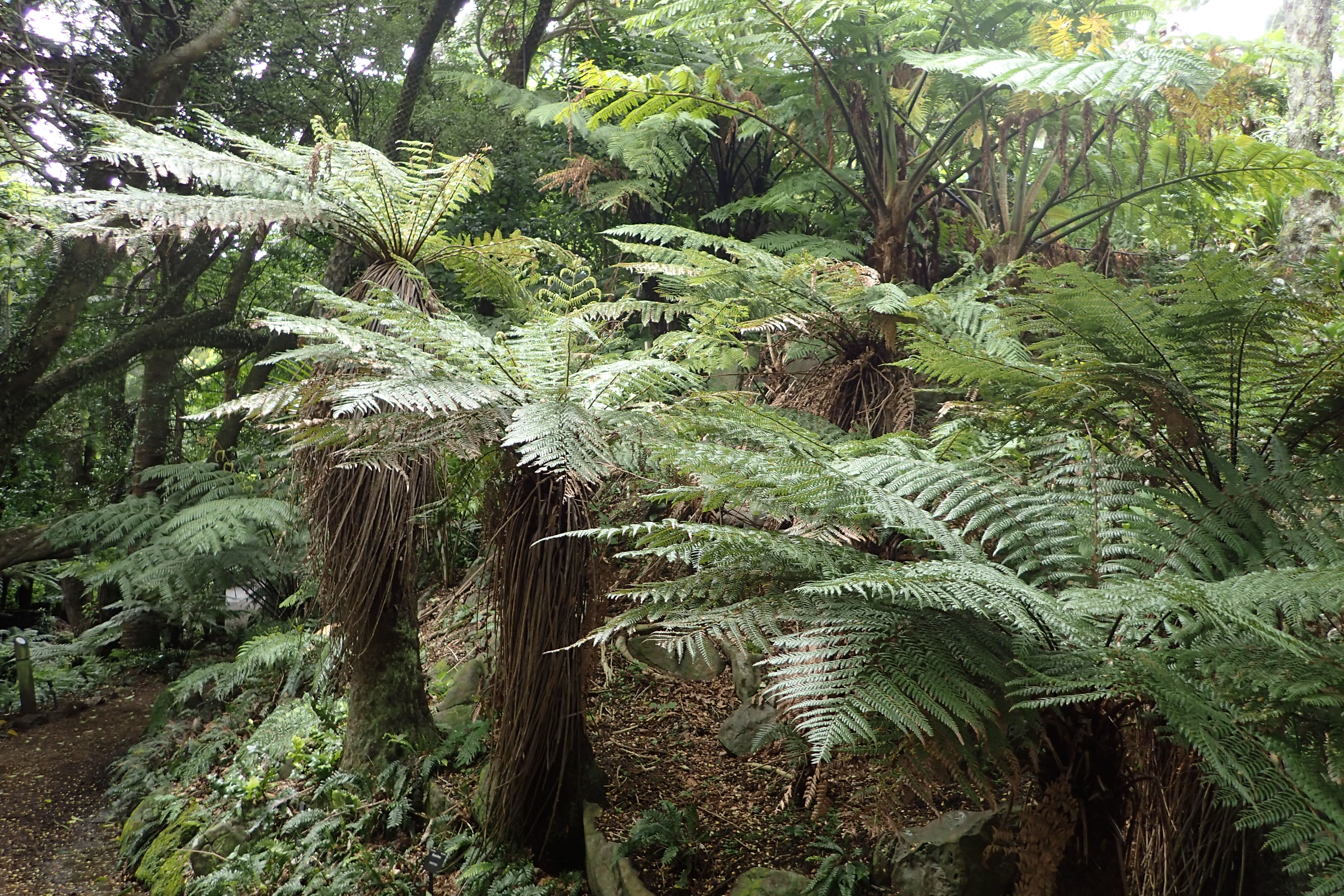 Dicksonia fibrosa in Wellington Botanical Garden